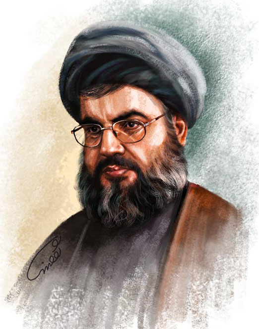 Portrait of Hassan Nasrallah by Abbas Goudarzi.